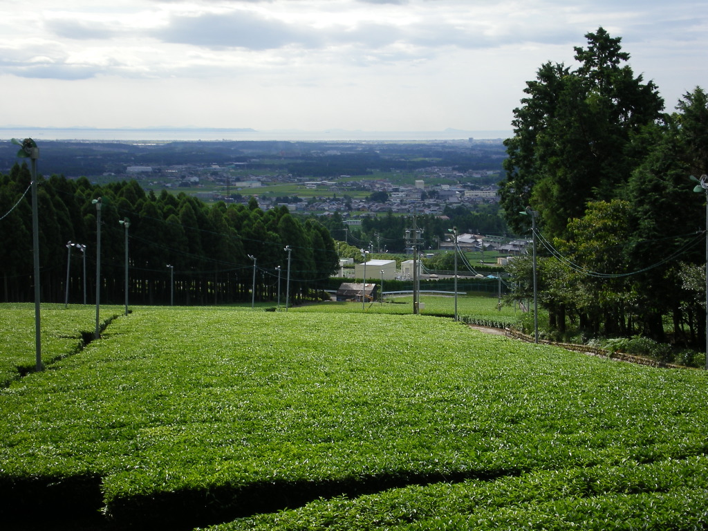 Suizawacho, Yokkaichi, Mie Prefecture 512-1105, Japan